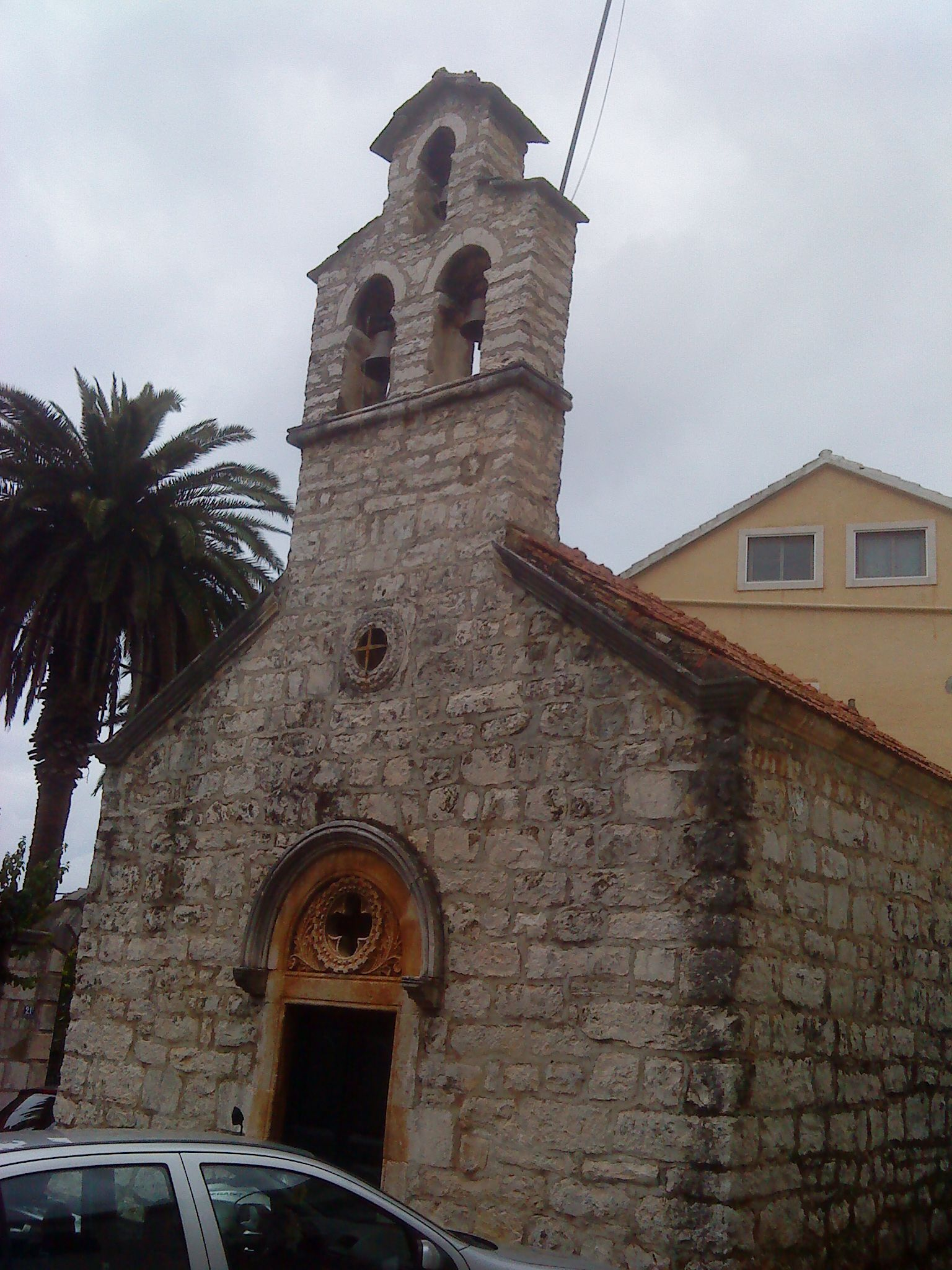 Church in Blato on Korčula